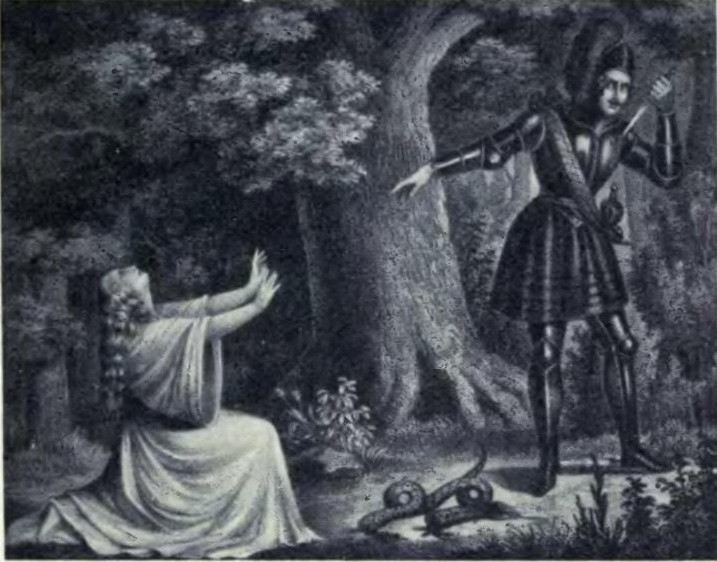 Forest scen of the opera "Euryanthe" by Carl Maria von Weber, at the Royal Theatre in Dresden with Wilhelmine Schröder-Devrient in the title role. Image from Nils Personne: Svenska Teatern VIII (1927).